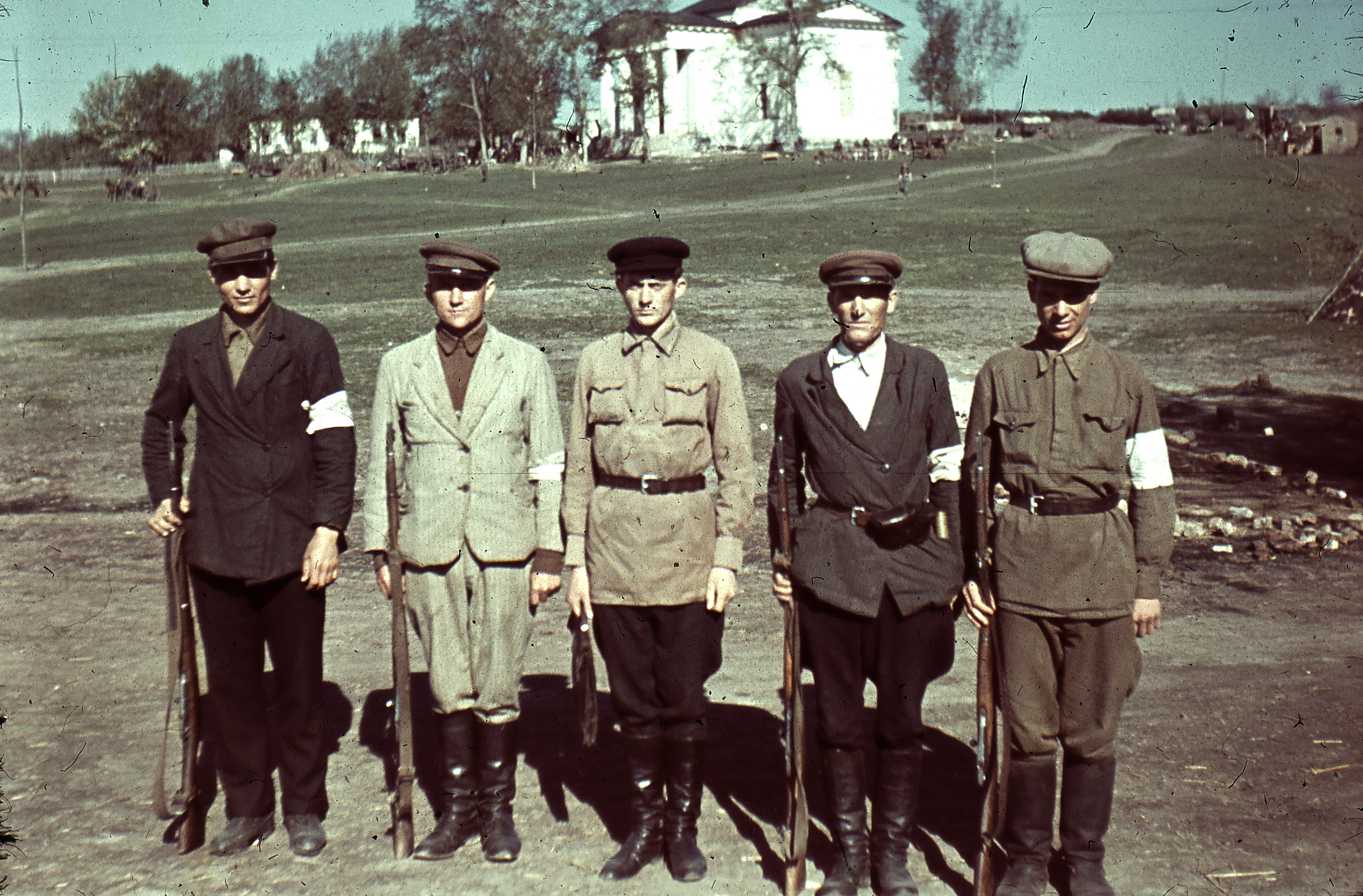 Location: Russia Tags: colorful, second World War